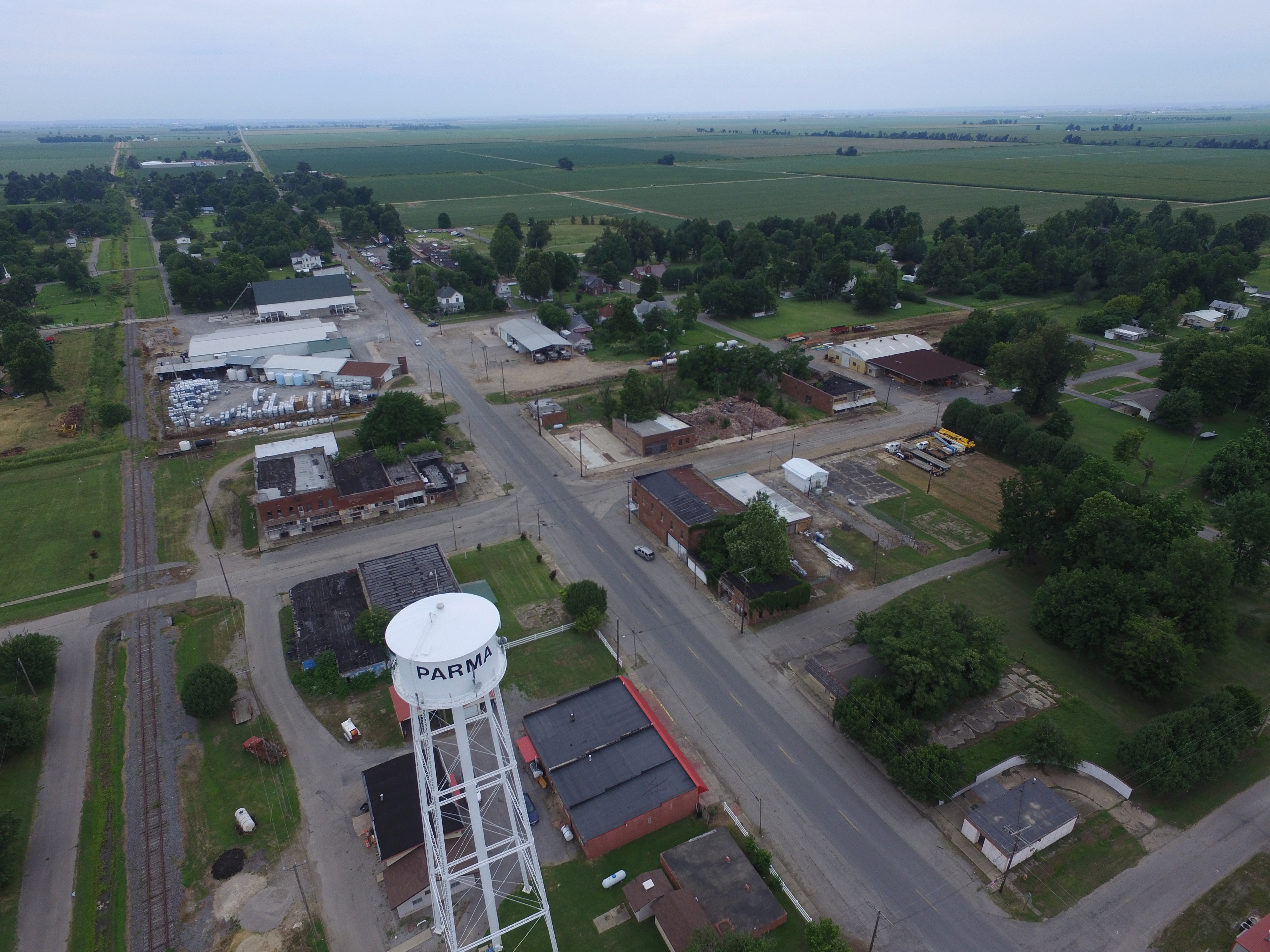 Drone photo of Downtown Parma